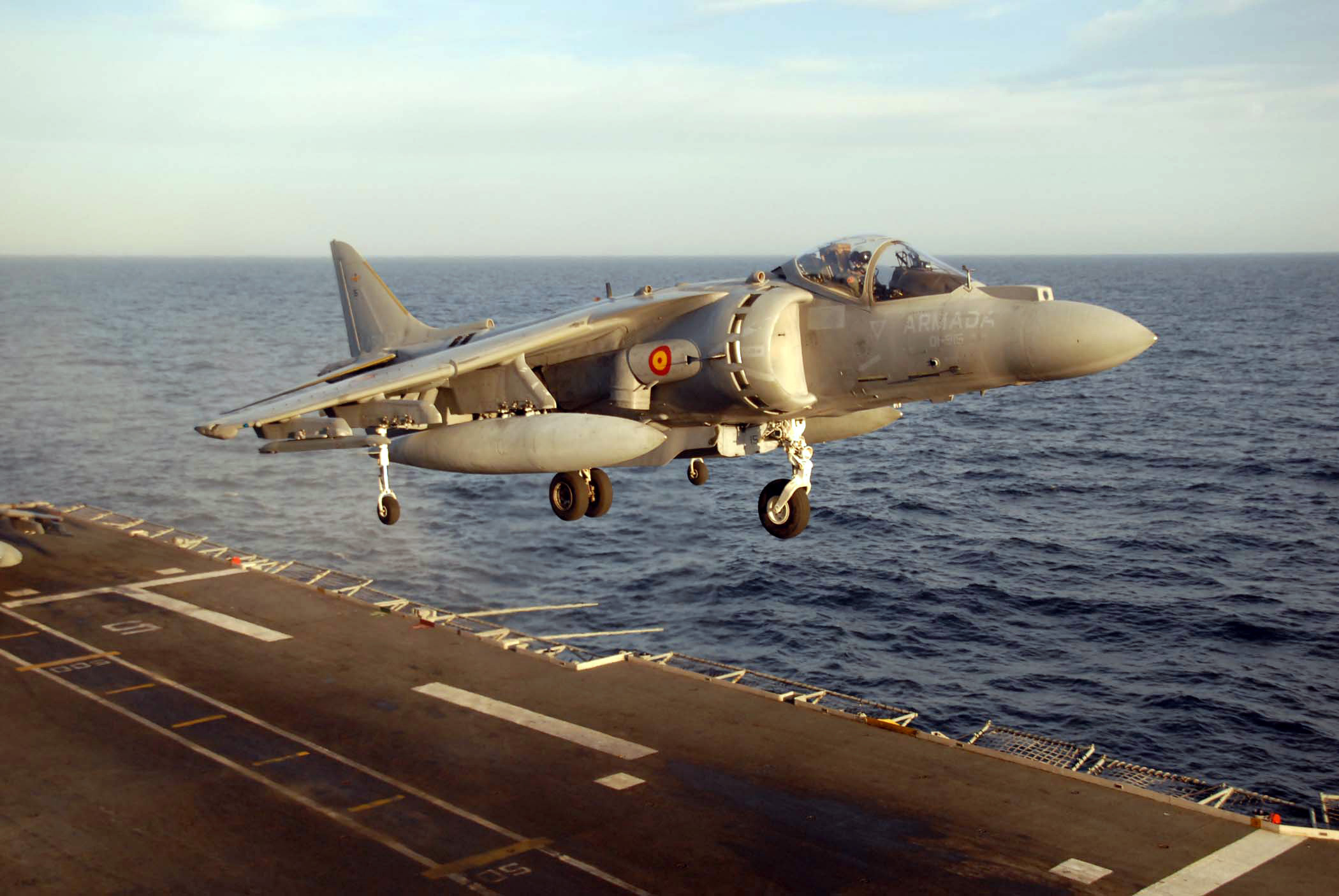 An AV-8B Harrier II aircraft from the Spanish aircraft carrier Principe de Asturias (R 11) prepares to land after a live-fire exercise as part of a passing exercise with ships assigned to Standing NATO Maritime Group Two (SNMG-2) at the Balearic Sea Feb. 23, 2007. The SNMG-2 was established as an immediate reaction force and as NATO's maritime ready response force.